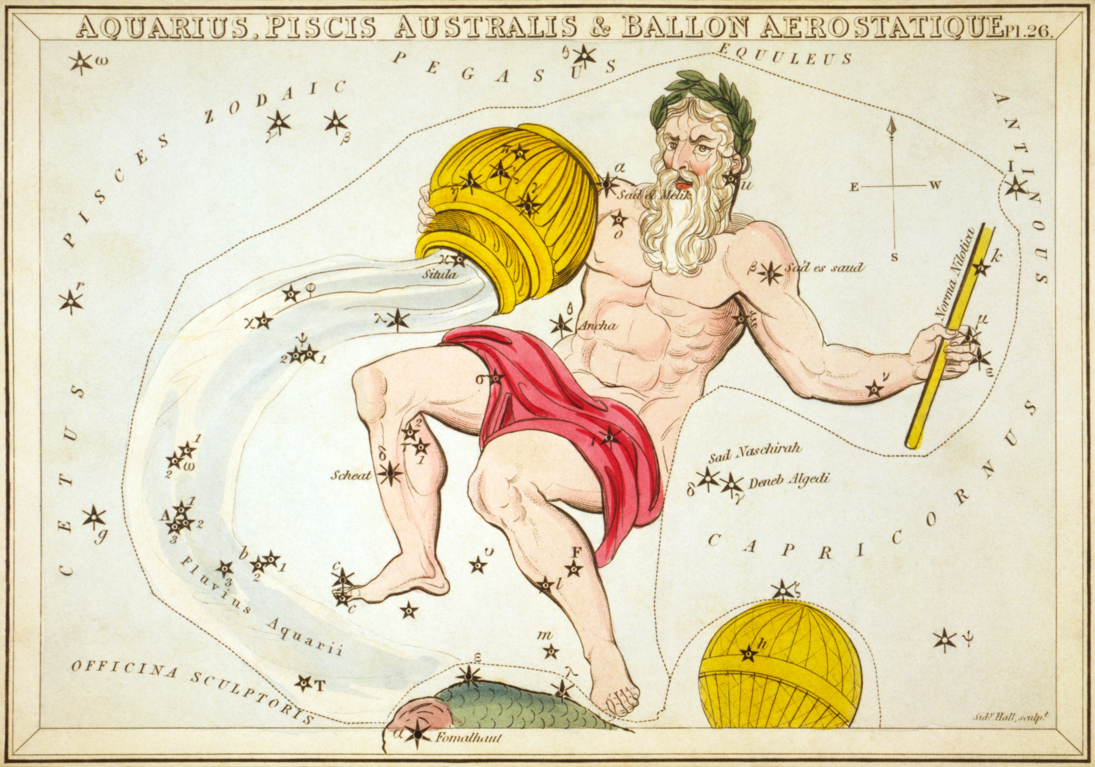 "Aquarius, Piscis Australis & Ballon Aerostatique", plate 26 in Urania's Mirror, a set of celestial cards accompanied by A familiar treatise on astronomy ... by Jehoshaphat Aspin. London. Astronomical chart, 1 print on layered paper board : etching, hand-colored.